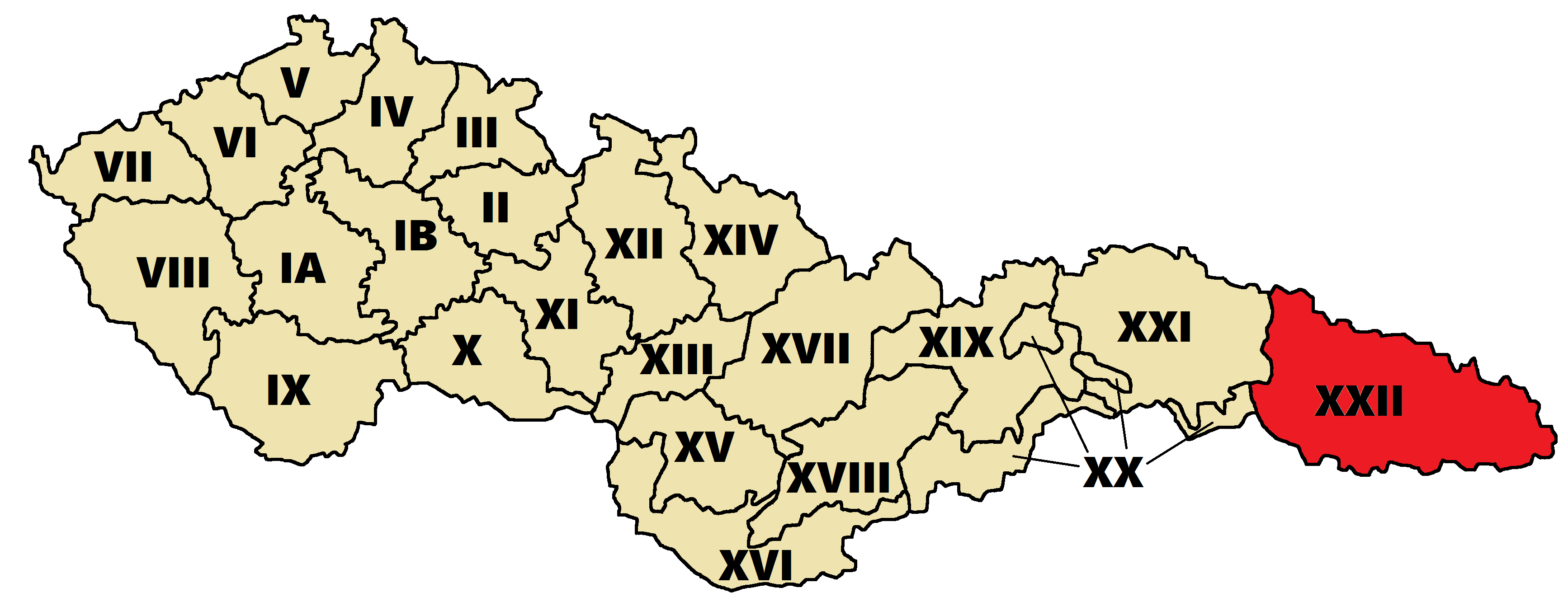 Based on File:Electoral districts (Chamber of Deputies) in Czechoslovakia 1925, 1929, 1935 (numbered).png